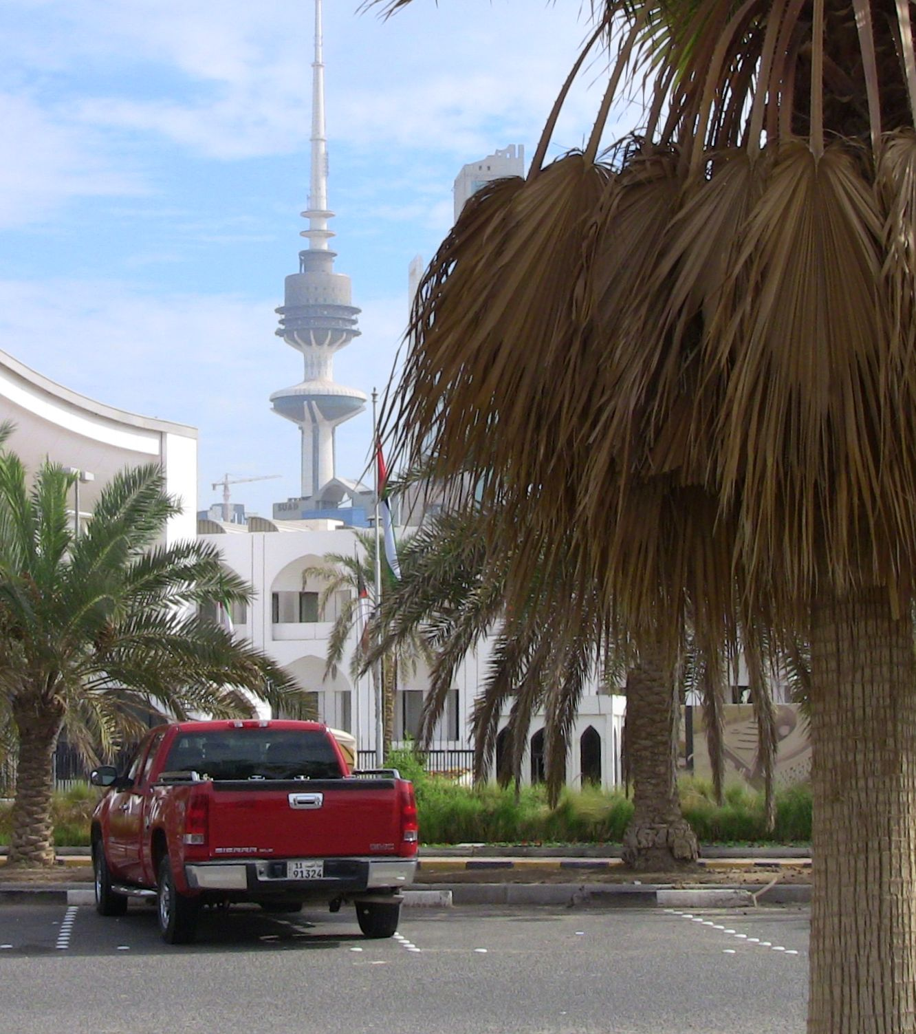 Liberation tower or Kuwait Telecommunications Tower